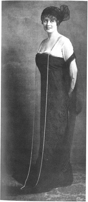 A young Countess Schönborn posing for a more "artsy" photo.